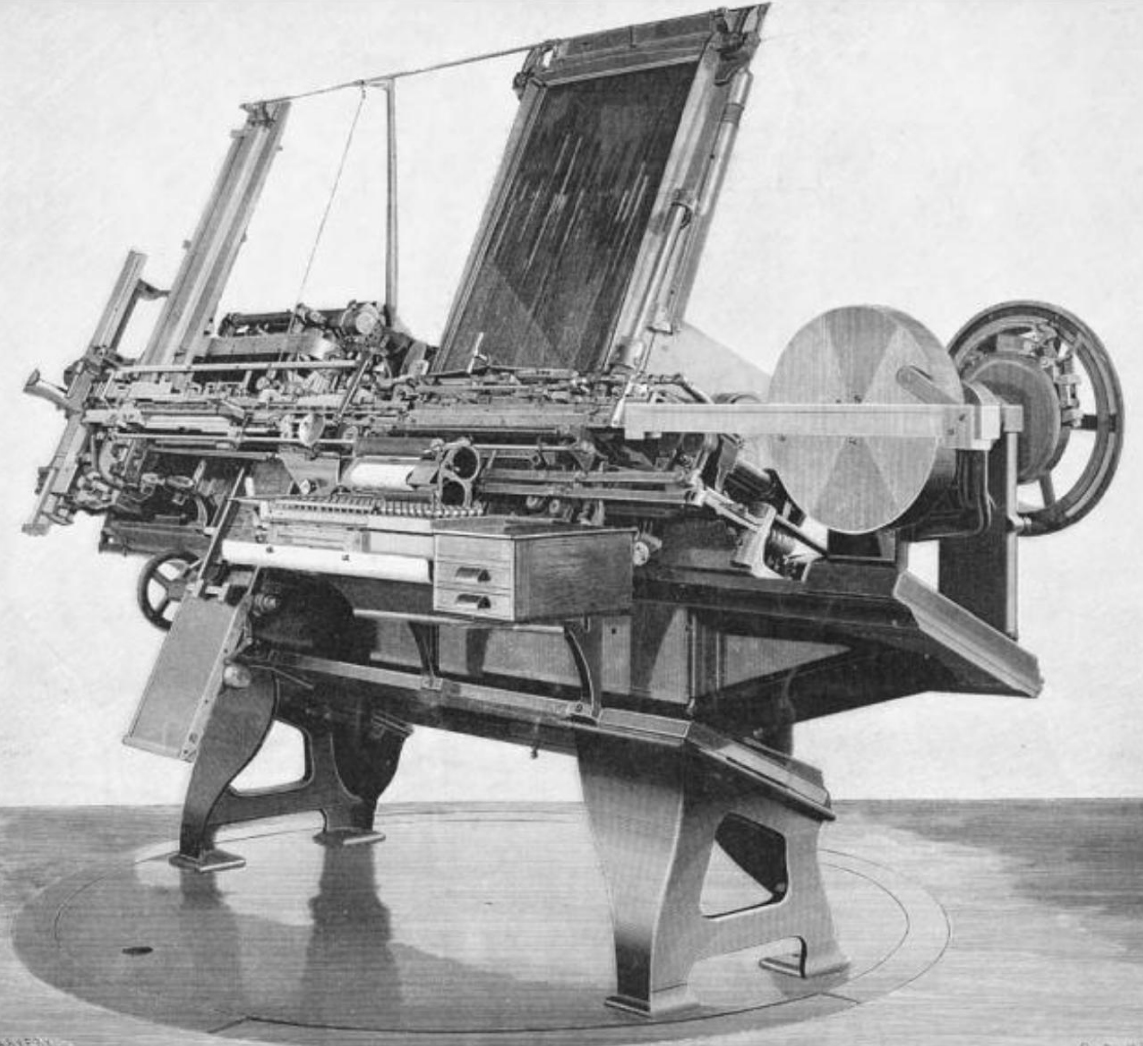 The Paige Compositor, an automated typesetting machine from the late nineteenth century.